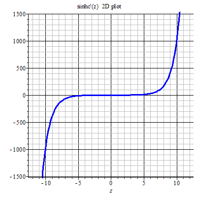 Sinhc'(z) 2D plot